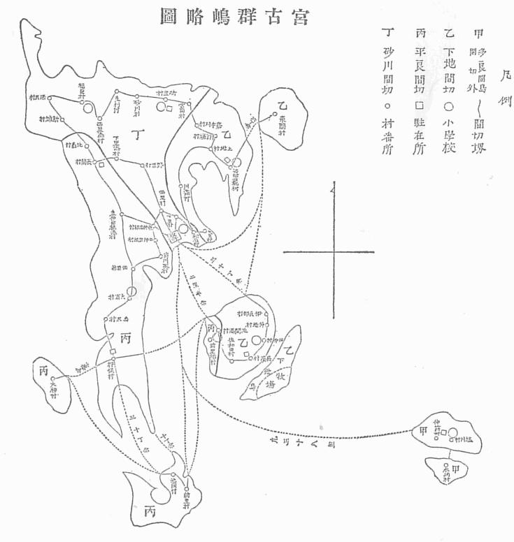 Map of Miyako Islands, created before 1915.